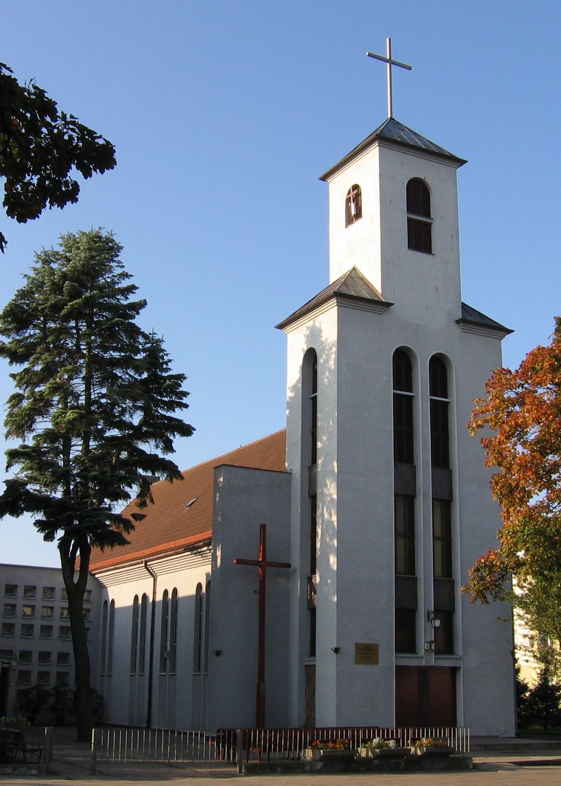 The Feast of Holy Cross Church in Kołobrzeg, Poland